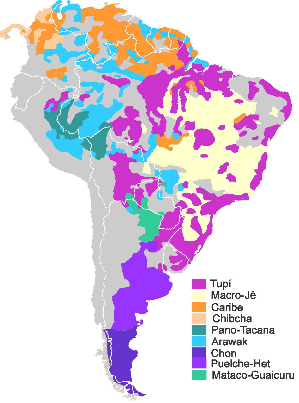 Main language families of South America (aside from Quechuan and Aymaran languages), approximate language areas).